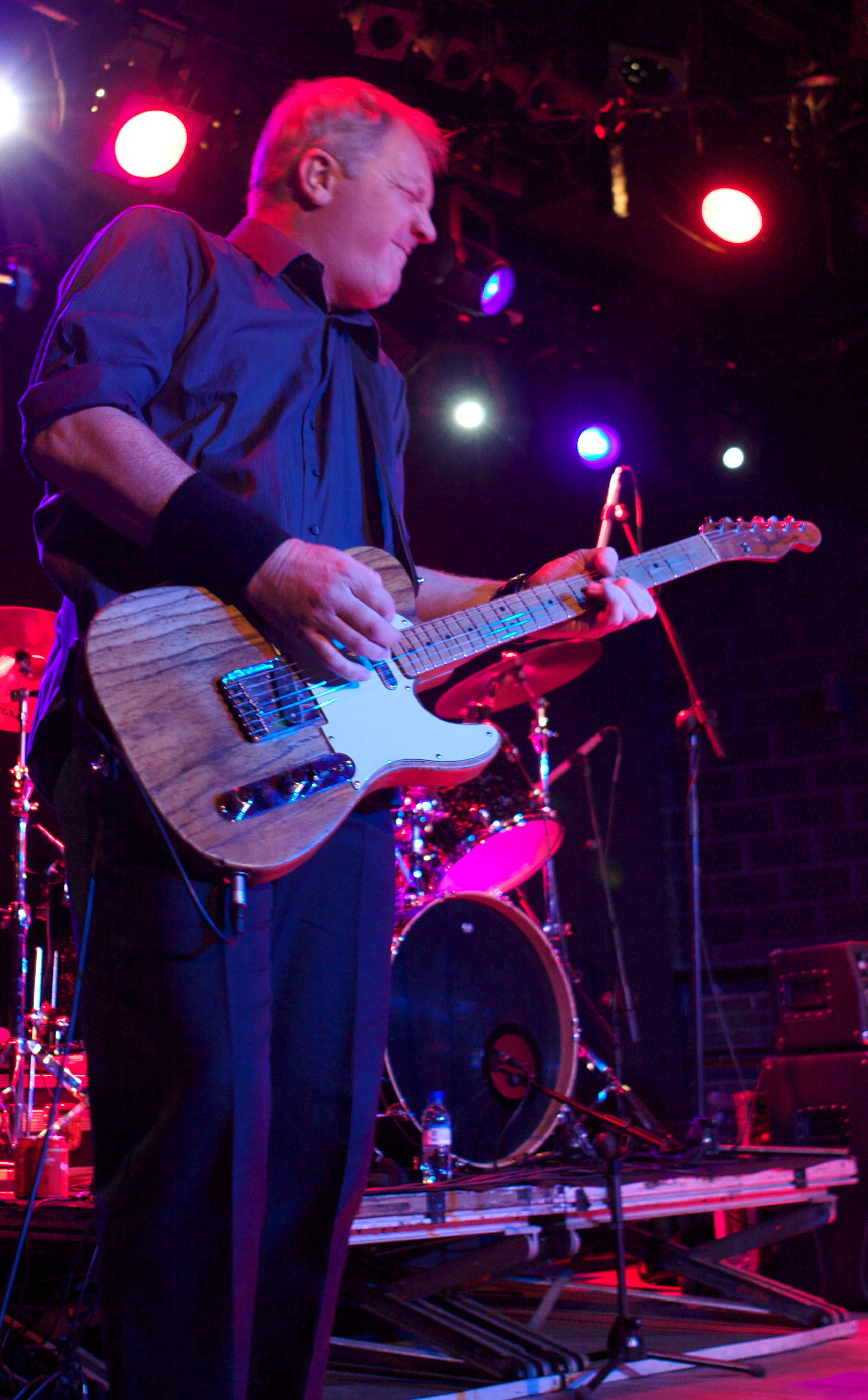 Dr Feelgood's Steve Walwyn live at Sans, Barcelona